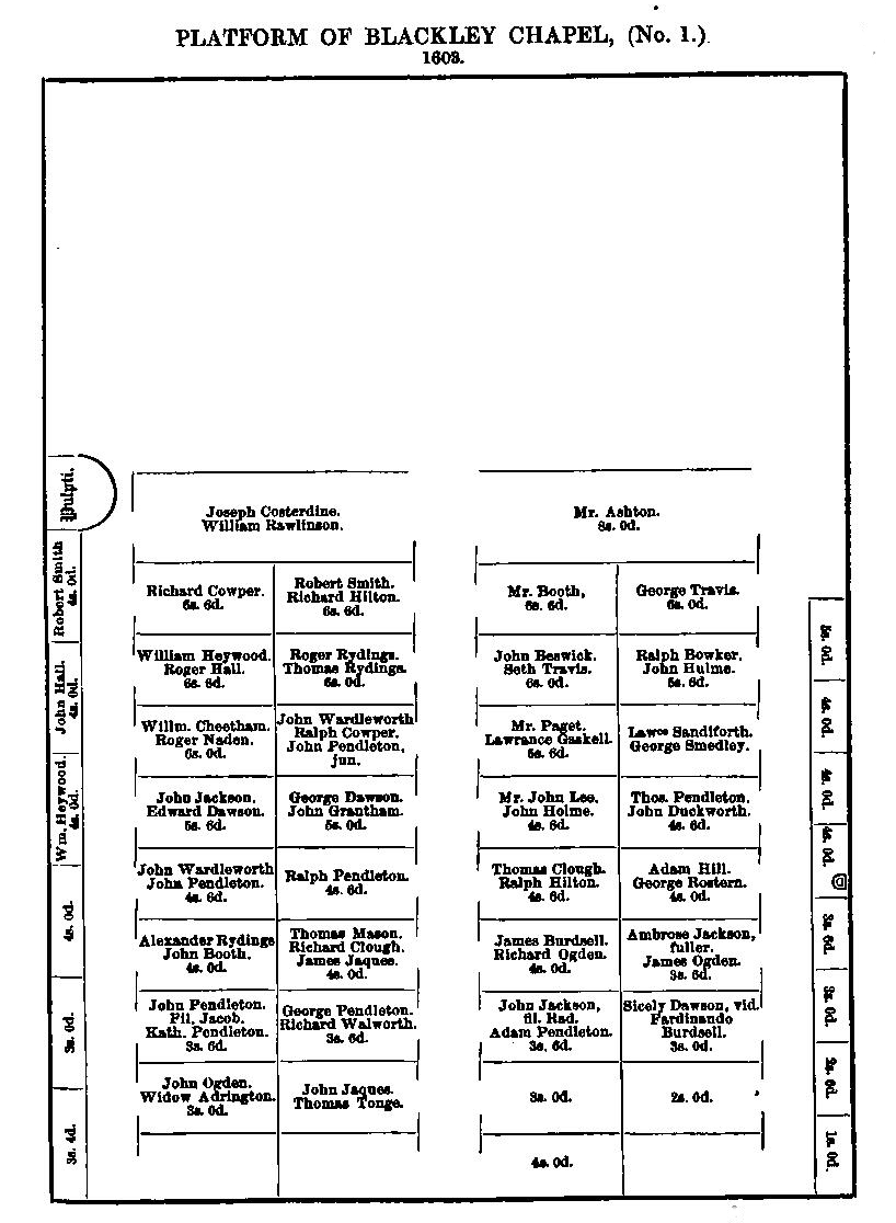 1854 transcription of a c.1603 plan of the seating allocation in Blackley Chapel, a centre of Puritan preaching in Manchester parish.